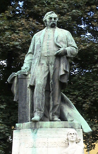 Statue – Ferenc Deák (1803–1876), hungarian politician. Sculptor: Aladár Gárdos. Miskolc, Hungary